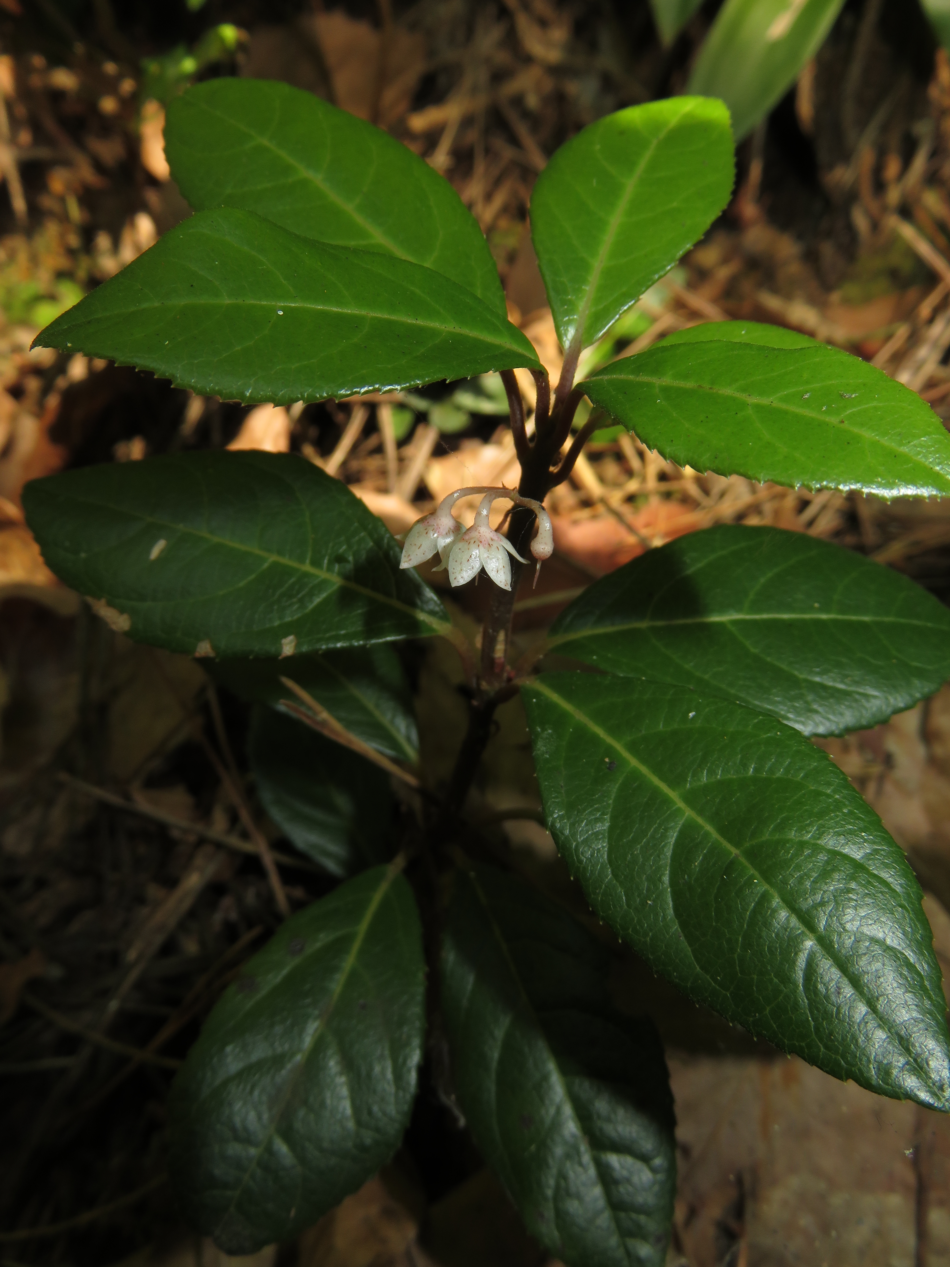 Ardisia japonica, Aizu area, Fukushima pref., Japan